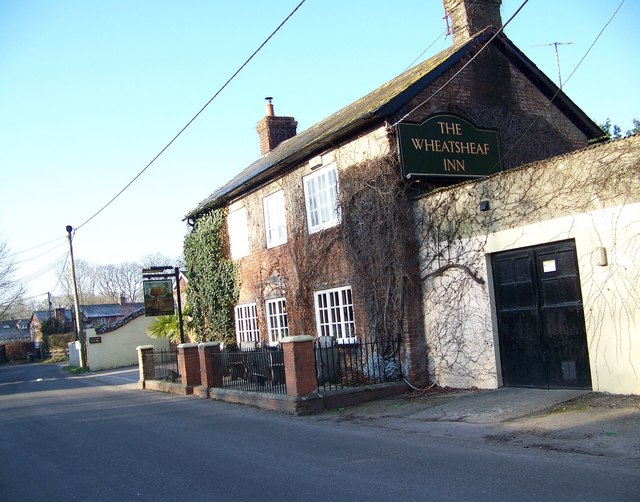 The Wheatsheaf Inn, Lower Woodford The Wheatsheaf was once a farm and what are now the dining rooms used to be the stables and barns.